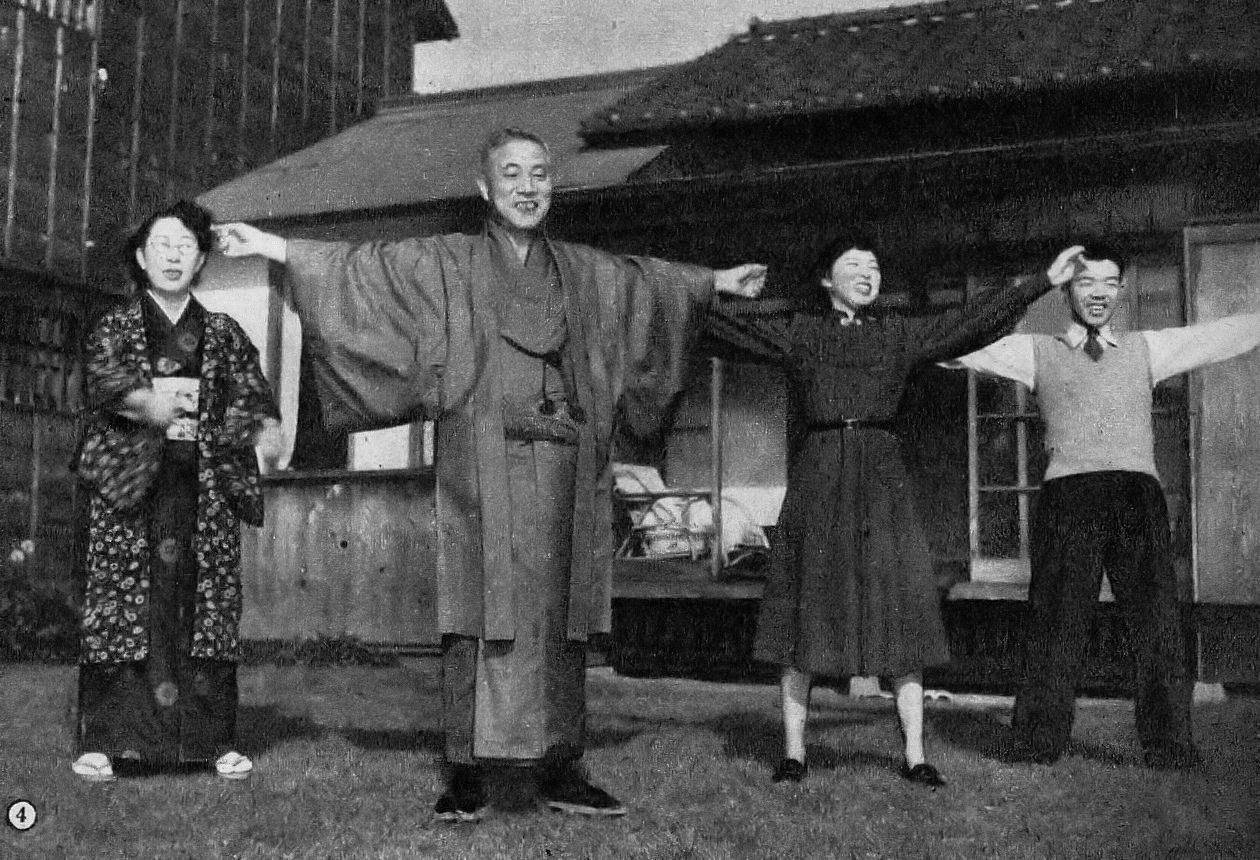 Kuichiro Totsuka and his family